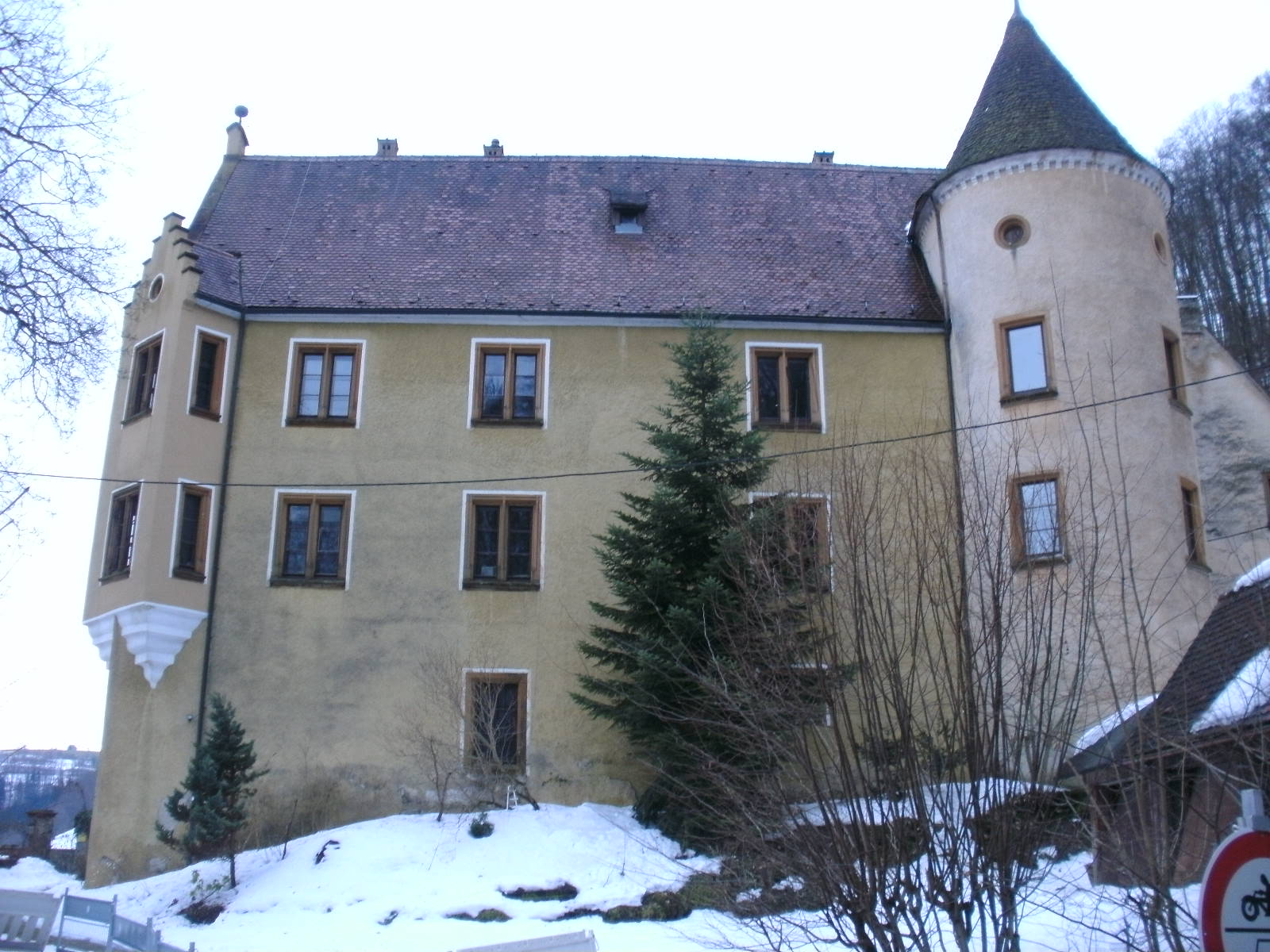 Castle Weissenstein in Lauterstein, Germany. View from the west